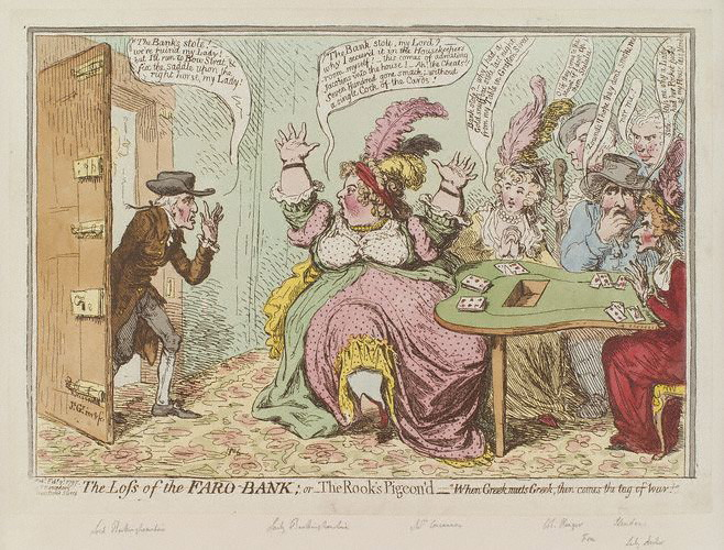 The discovery of the Faro Ladies' faro bank.